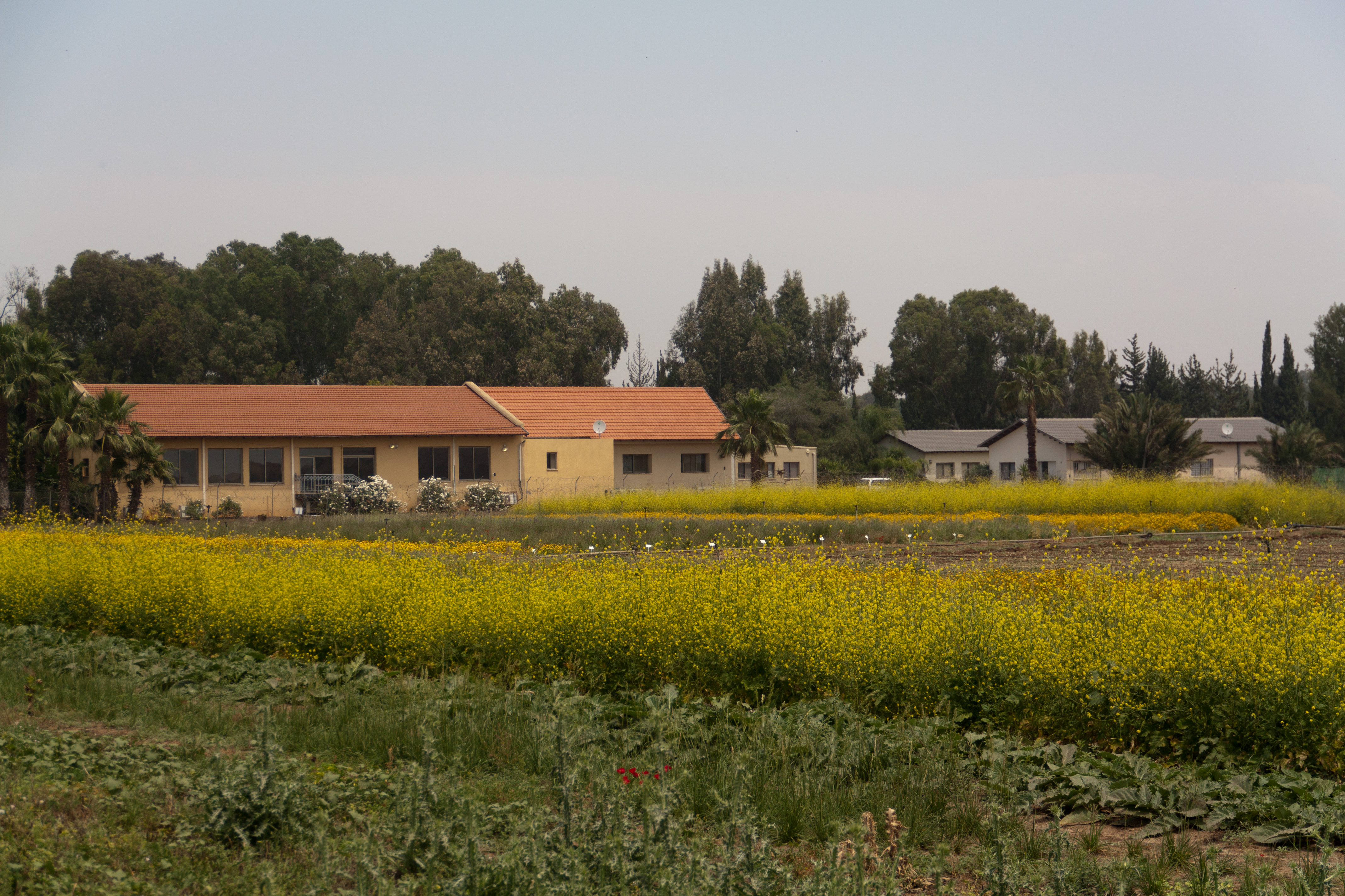 Hazera offices in Shalem Farm